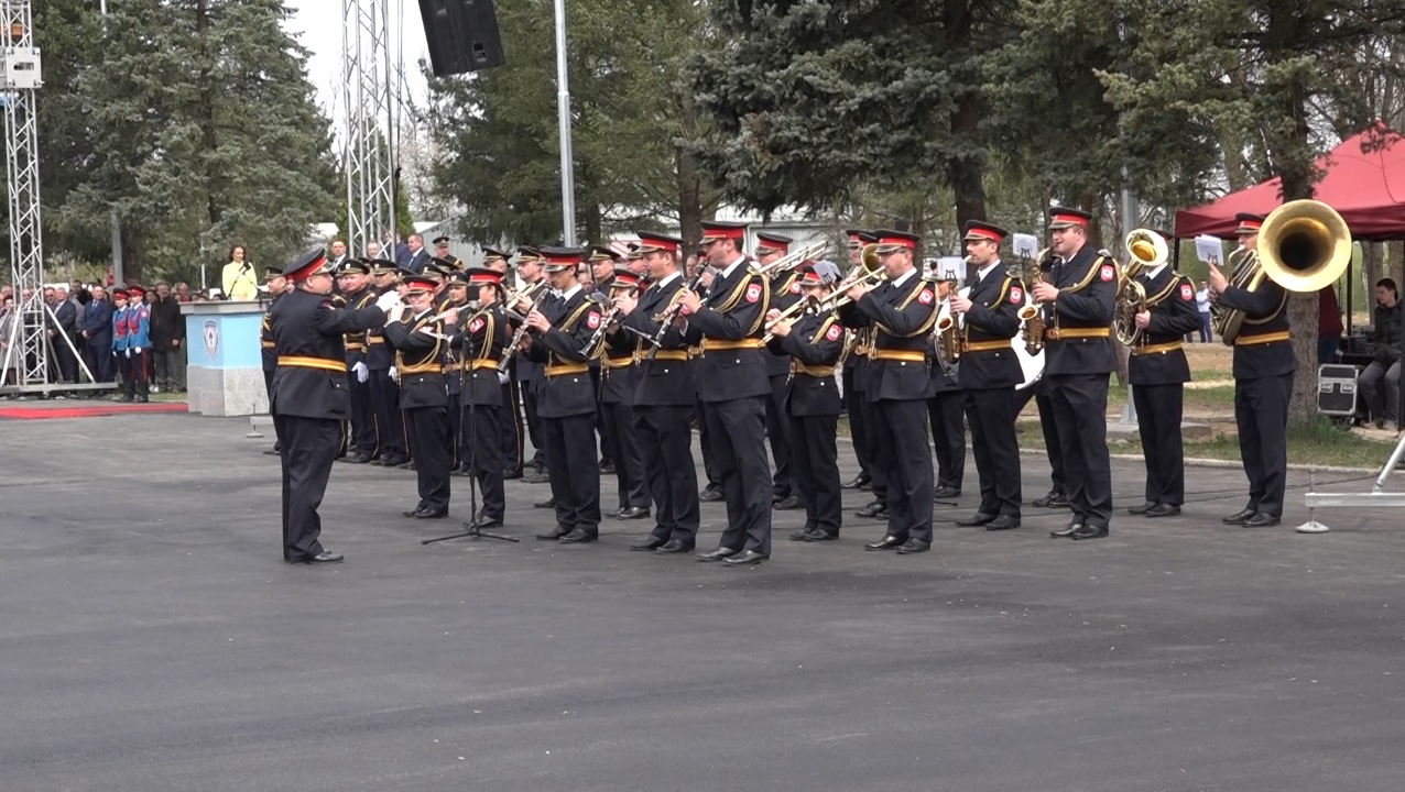 Police Band of the Ministry of Interior of Republika Srpska during celebration of the Police Day 2019 in Training Center of the Ministry of Interior in Zalužani near Banja Luka. The band in this moment played protocolar march "Narodni heroji" (National Heroes) composed by Ferdo Pomykalo while they waited for President of Republika Srpska Željka Cvijanović. Conductor of the band is Dušan Pokrajčić.